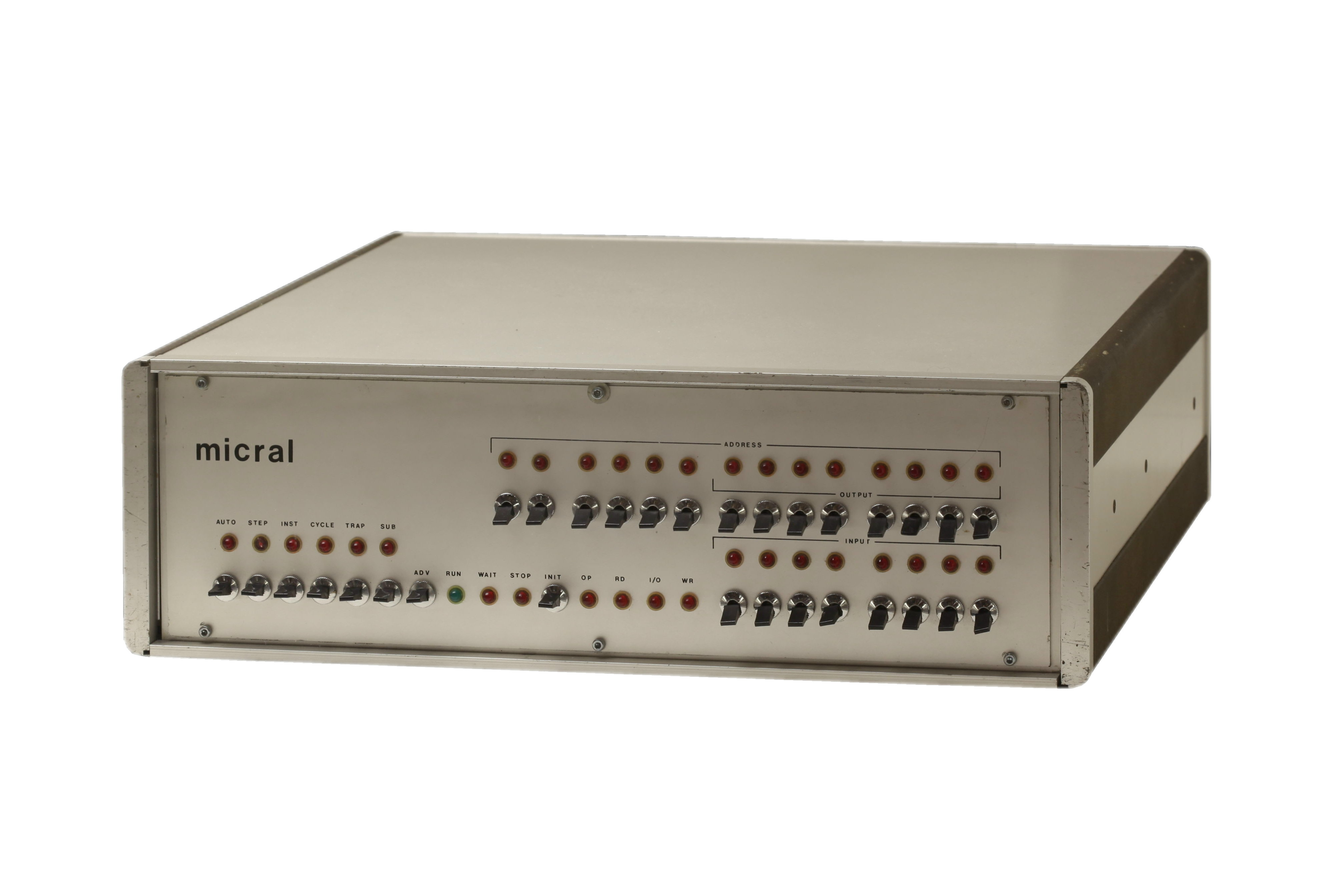 Micral computer. Exposed in Lyon